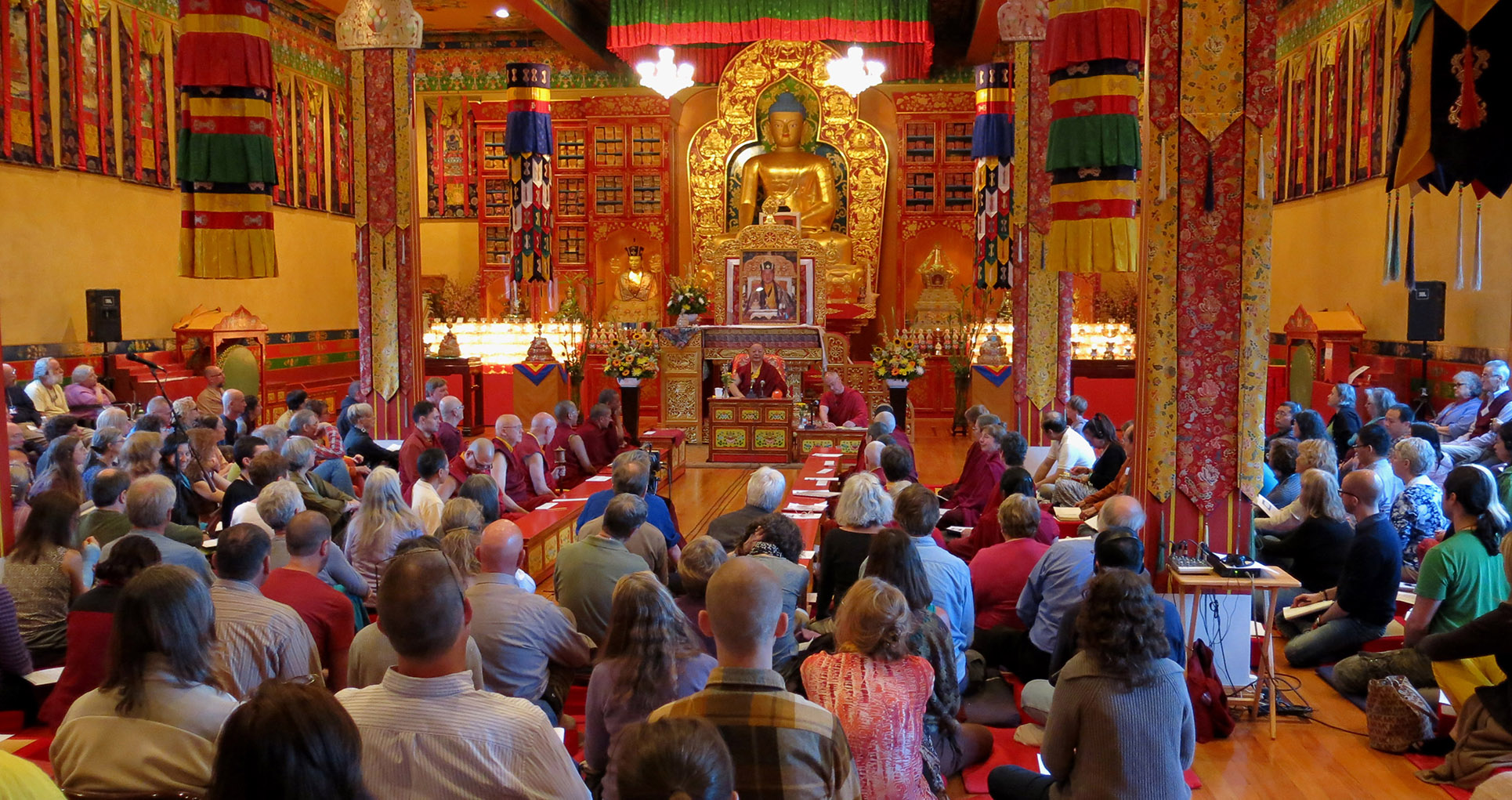 Khenpo Karthar Rinpoche transmitting the Khenpo Gangshar teachings at Karma Triyana Dharmachakra. Lama Yeshe Gyamtso Lotsawa (translator) is sitting to Rinpoche's left. In this moment, Rinpoche is speaking and looking directly at the camera. Prior to Rinpoche's arrival in the U.S., there were no traditional Karma Kagyu students and there was no monastery, so one can say that everything in this picture is the direct result of his enlightened activity – his mandala.